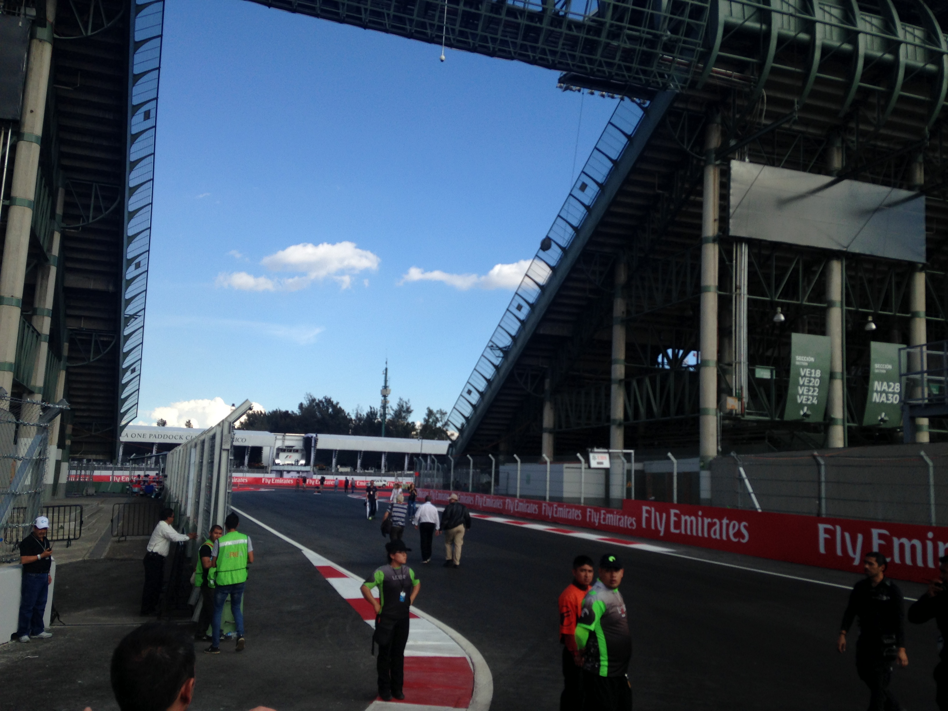 PitWalk Mexican Grand Prix 2015, Autódromo Hermanos Rodríguez. Mexico City, Mexico.